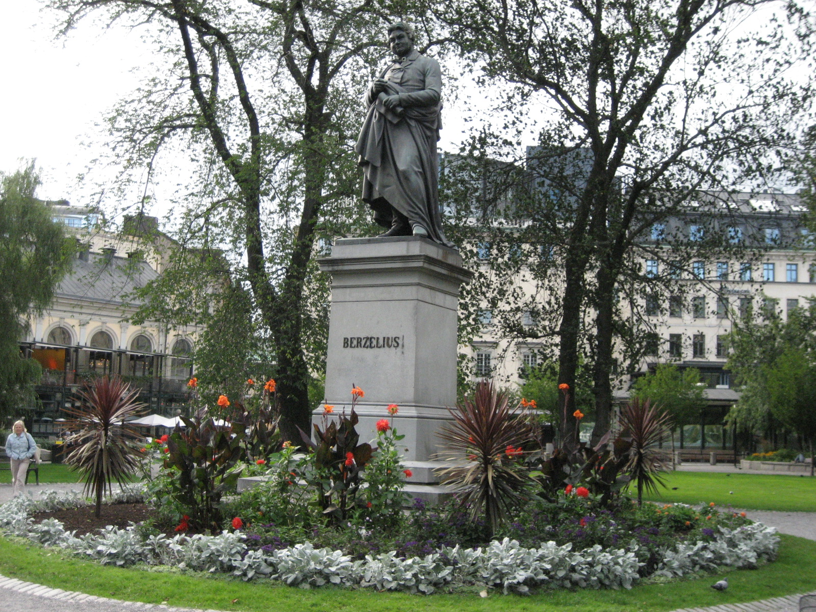 Statue of Jöns Jacob Berzelius at Berzelii Park, Stockholm, Sweden. The statue was made by sculptor Carl Gustaf Qvarnström (1810-1867) and was revealed in 1858.